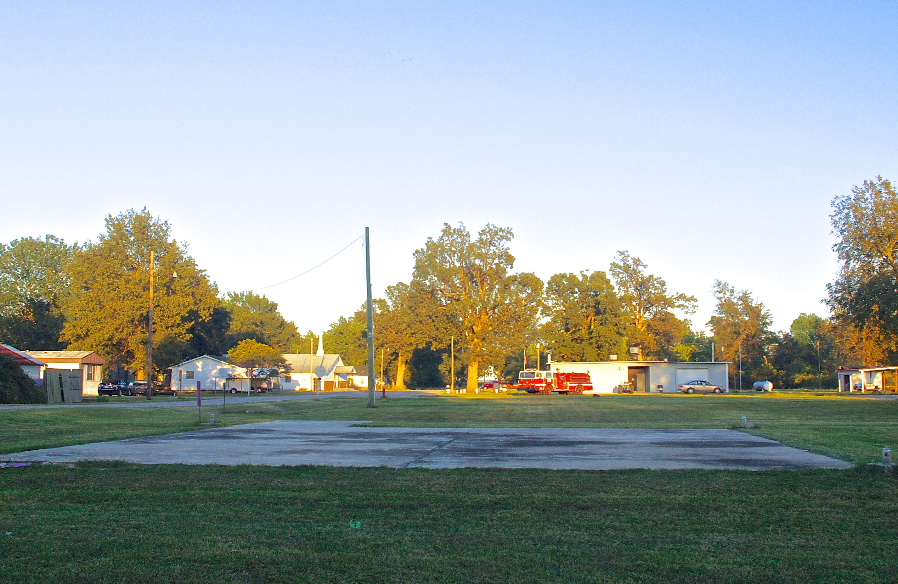 Buildings and houses in Canalou, Missouri, United States.